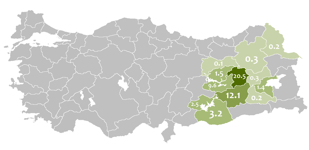 This map shows the distribution of people who spoke Zaza in 1965's Turkey.